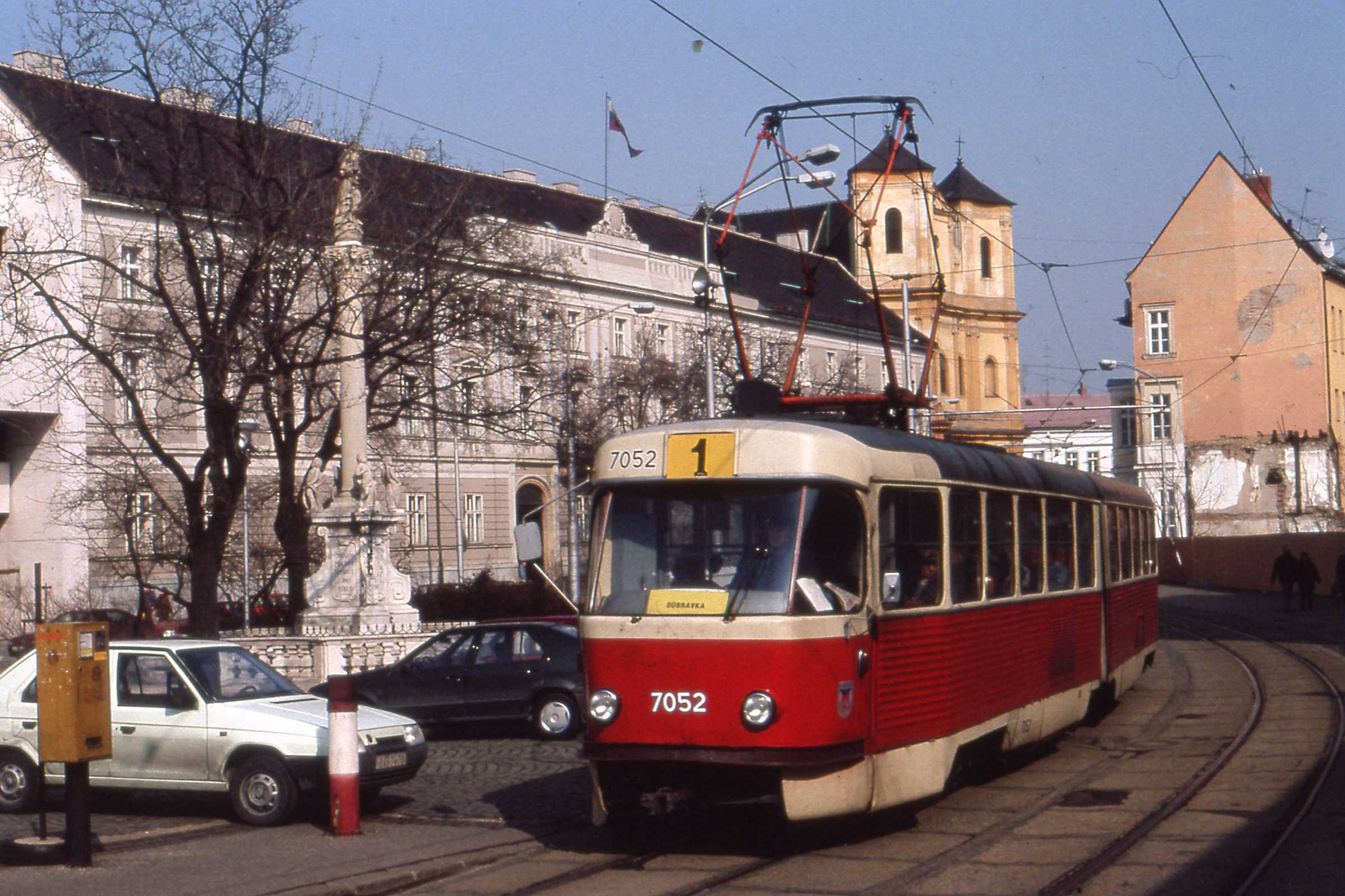 Tatra K2 tram in Bratislava, Slovakia, 1993